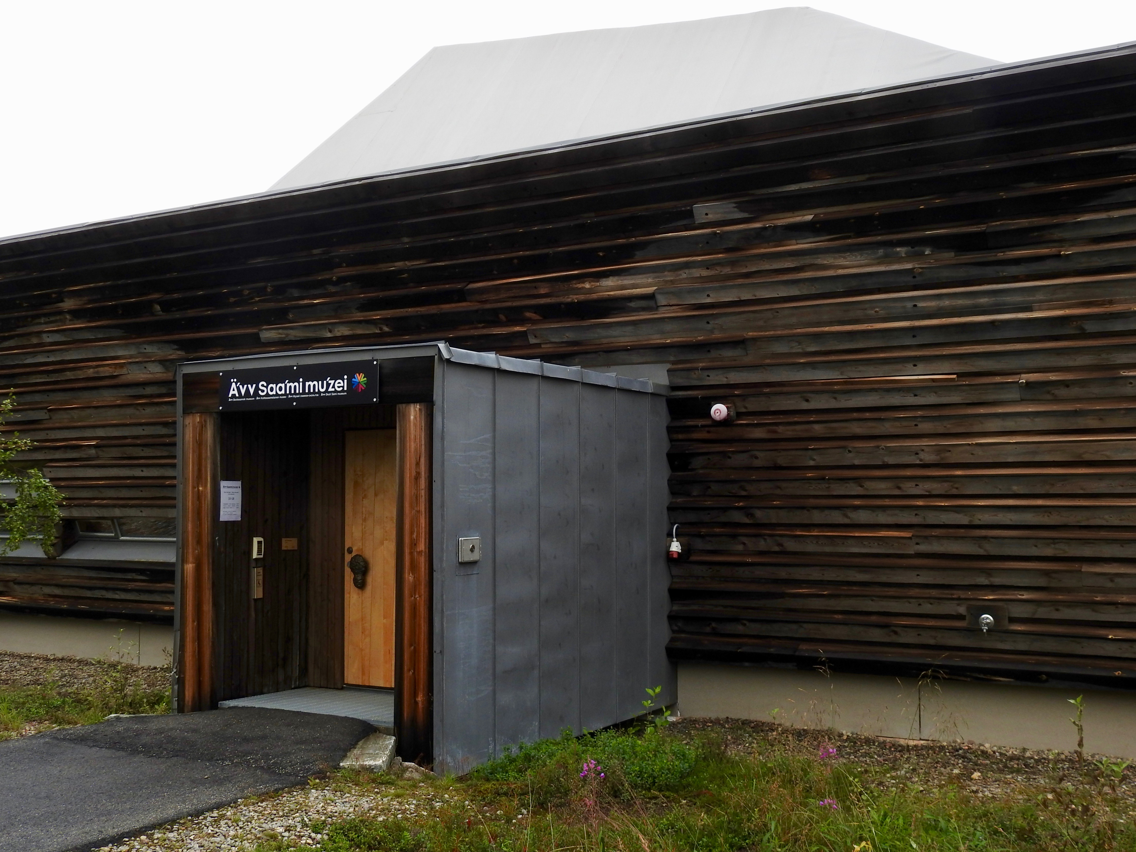 Entrance of the Äʹvv Skoltsami Museum in Neiden